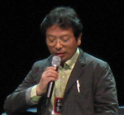 Mangaka Yoshihiro Takahashi being interviewed in Tracon VI convention, Tampere Hall, Finland.